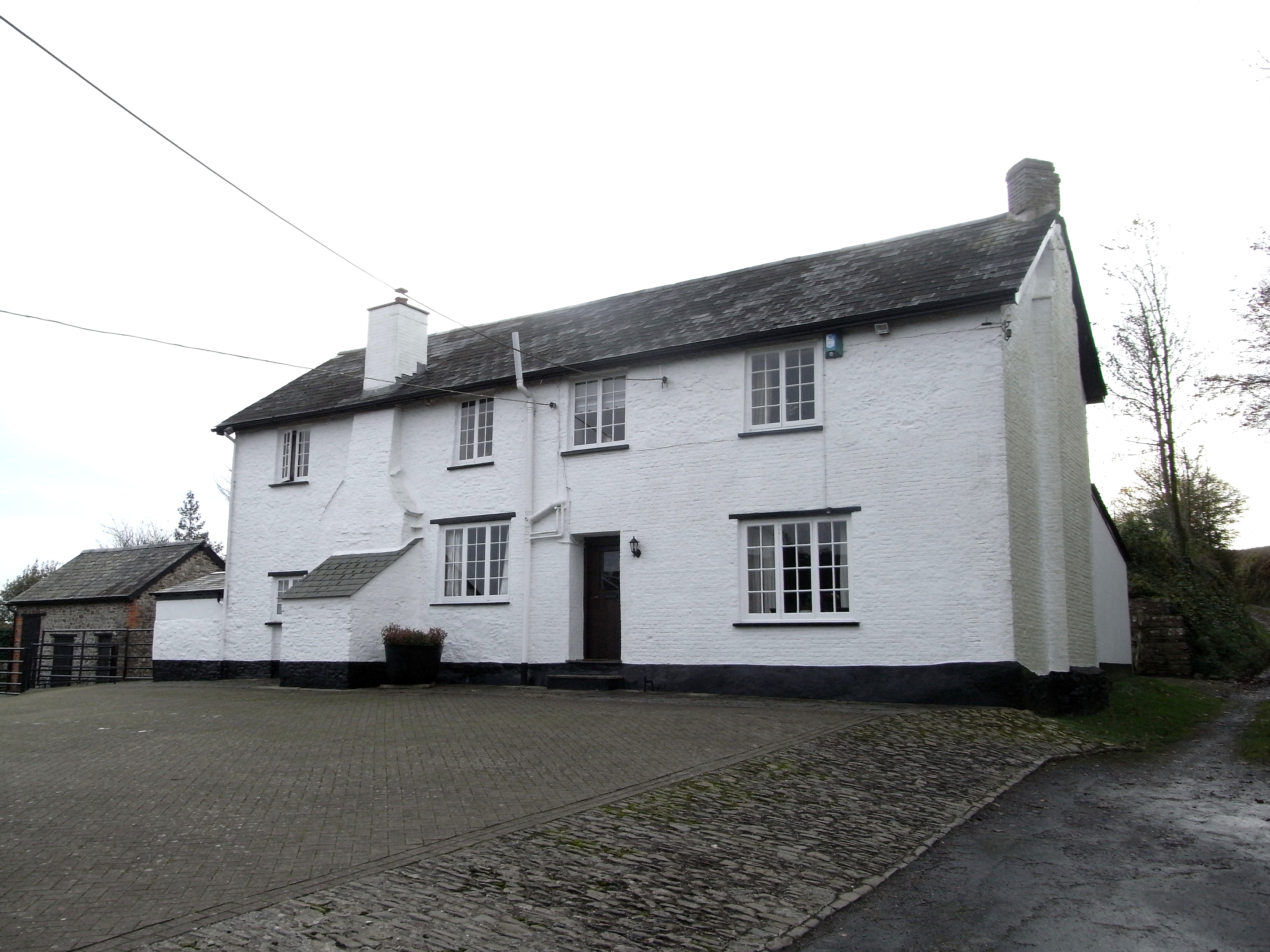 Rookabeare House in the parish of Fremington, North Devon. Residence of the Paige family, merchants at nearby Barnstaple. Gilbert I Paige (c.1595-1647) of Barnstaple, and Rookabear House, was twice Mayor of Barnstaple in 1629 and 1641. His Monument survives in St Peter's Church, Barnstaple. The fireplace on the right gable-end incorporates an important plaster overmantel bearing date 1630 and showing the arms of the Spanish Company, see image at commons File:SpanishCompanyArms Overmantel 1630 RookabeareHouse Fremington Devon .PNG